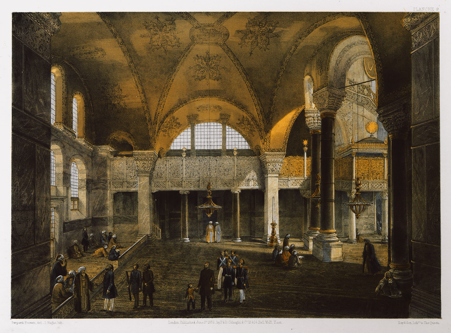 View of the imperial tribune in Hagia Sophia in Istanbul. This tribune stood between the mihrab and the Columns from Ephesus, which were transferred to the imperial capital during the reign of Byzantine Emperor Justinian I.